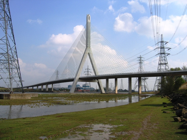 Flintshire Bridge from the South Bank of the River Dee Viewed from the south bank of the River Dee the design of the Flintshire Bridge echoes the shape of the many electricity pylons in the area. There had been no recent rain when I took this photo, so the pools of water indicate that the tide can sometimes reach this higher bank.